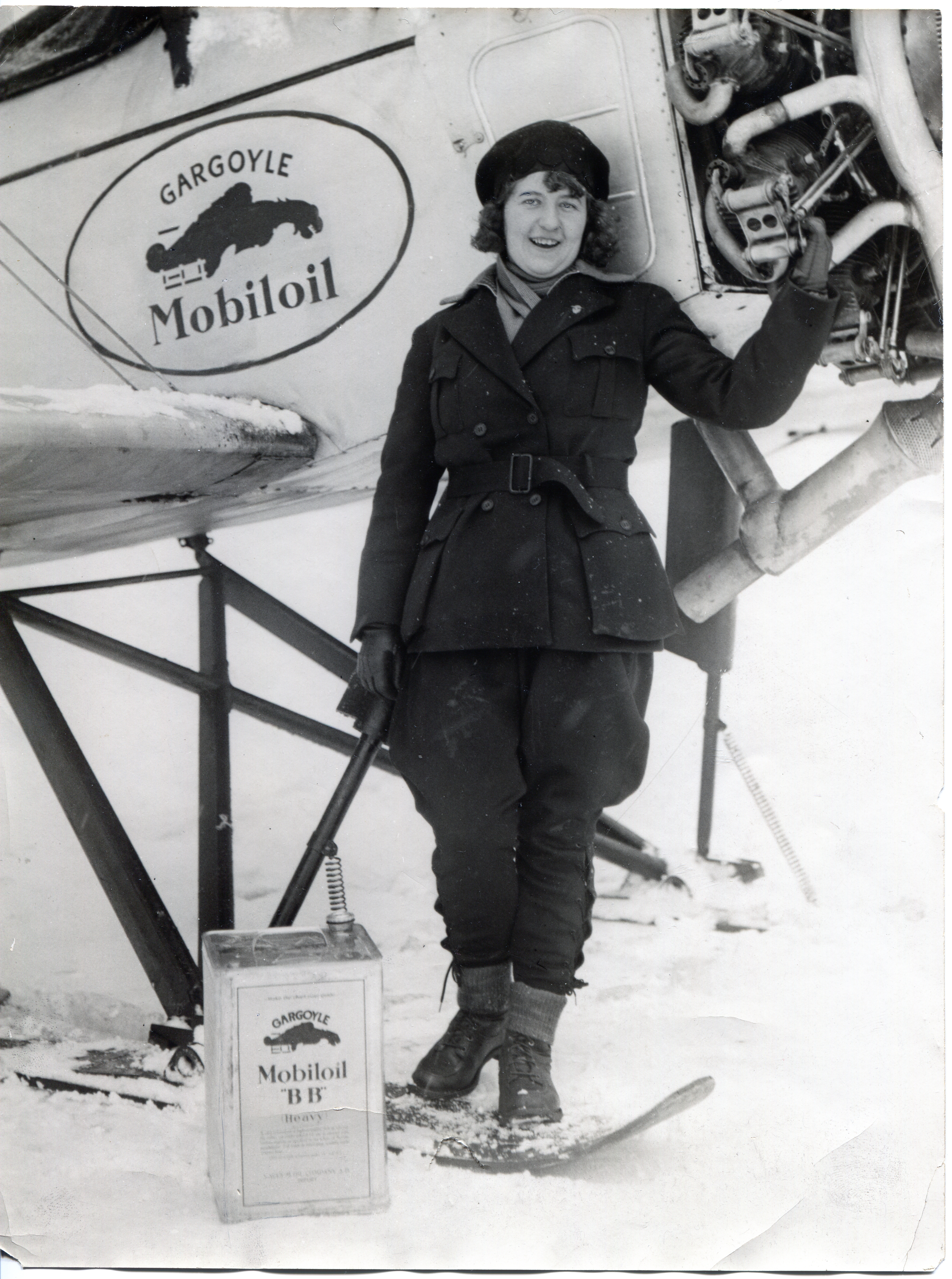 Bildetekst: Frk. Gidsken N. Jakobsen. The first norwegian lady-aviator.